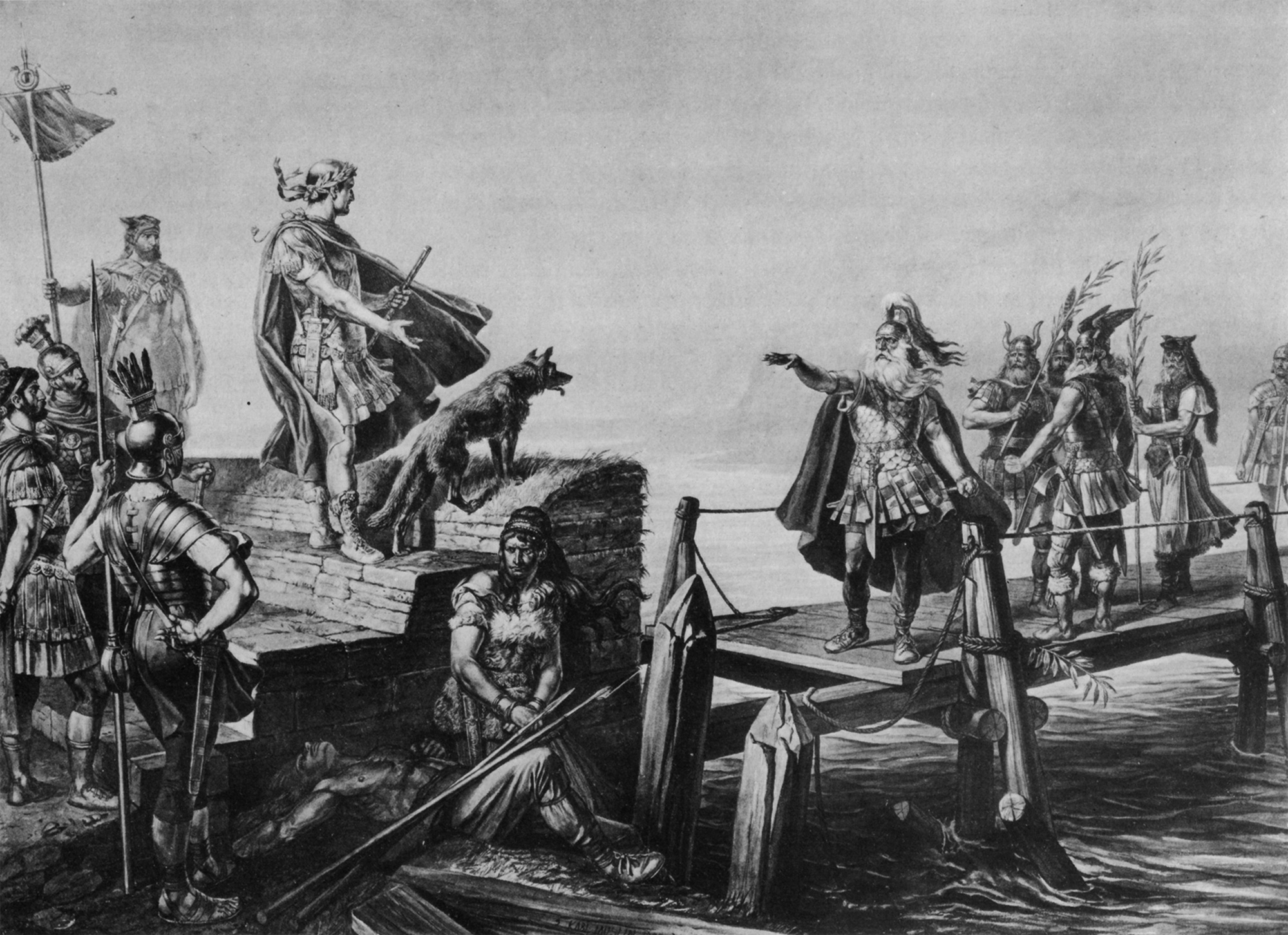 Julius Caesar and Divico parley after the battle at the Saône. Historic painting of the 19th century inspired by a scene described by Caesar (original text above)